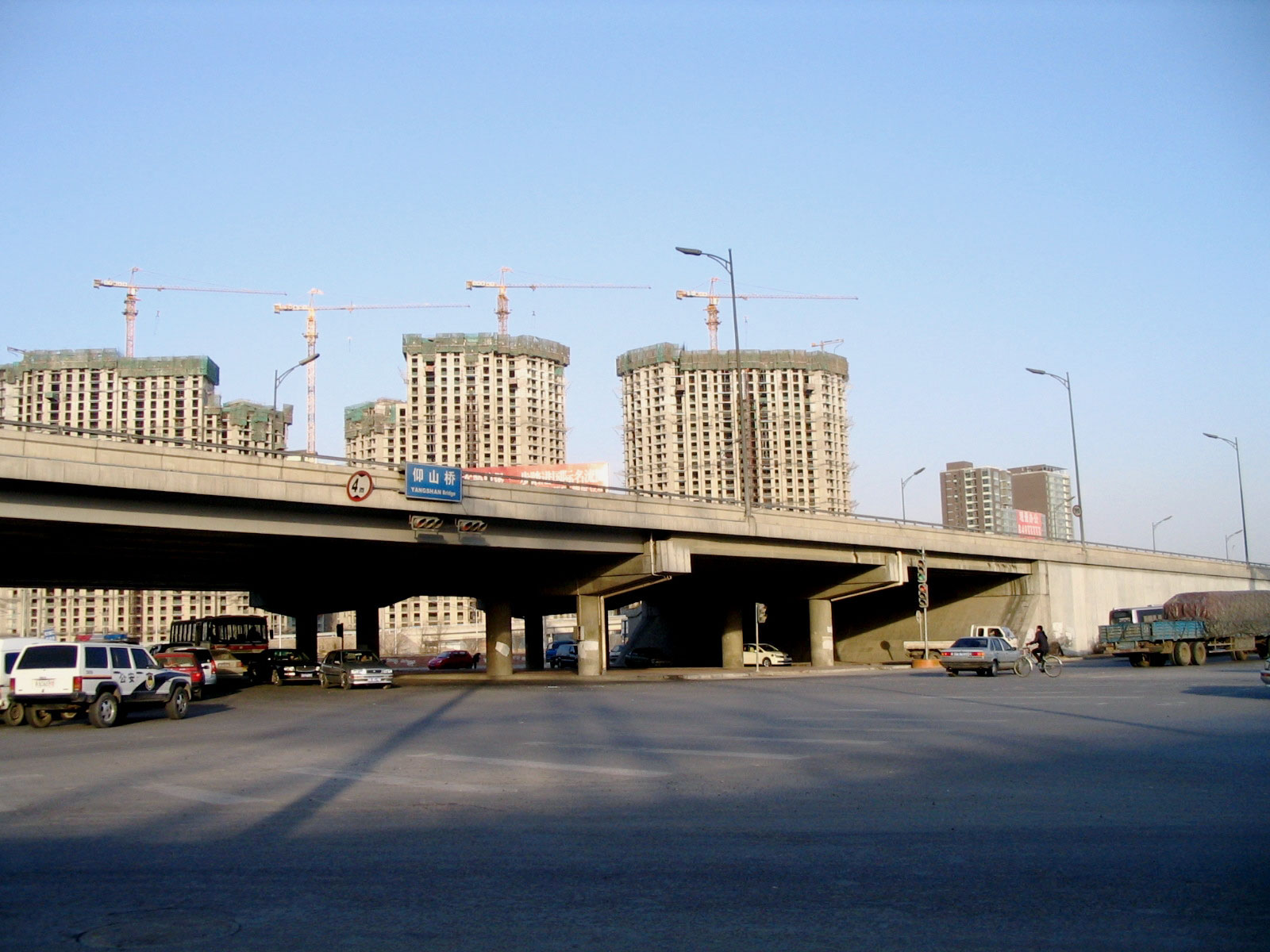 Yangshan Bridge at the north section of 5th Ring Road of Beijing. 北京五环路北部的仰山桥，位于五环路和安立路交叉处。